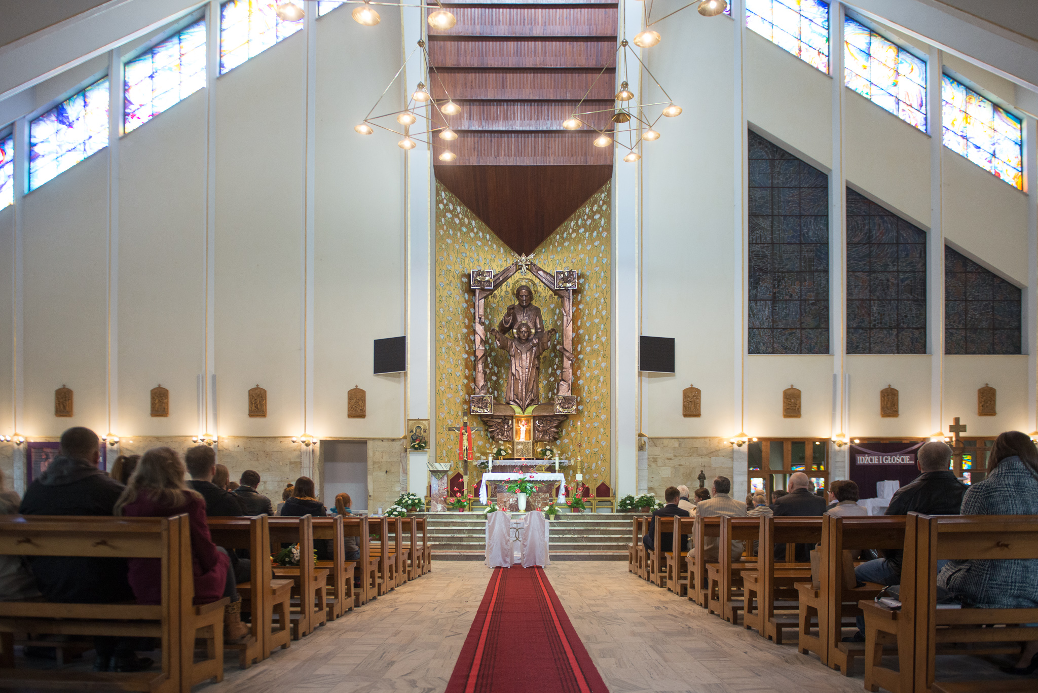 Church of Sts. Joseph in Bielsko-Biala (Zlote Lany), Poland. Photo of the interior of a church with wedding decorations.